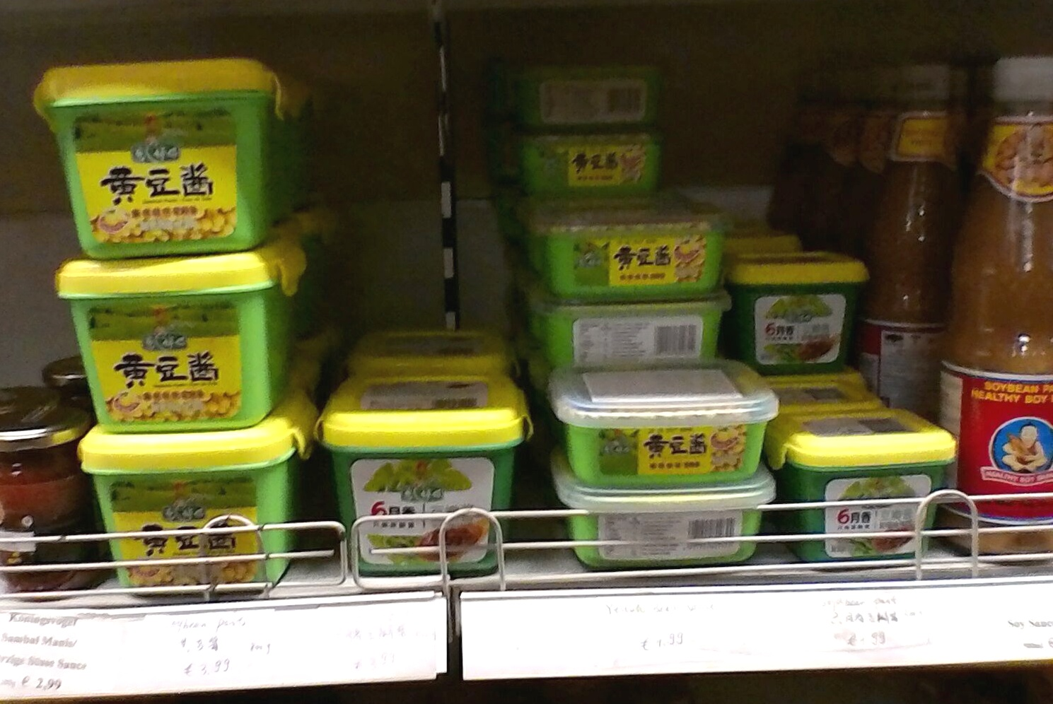 Chinese yellow soybean paste (huáng (dou) jiàng), various brands and containers on a supermarket shelf.